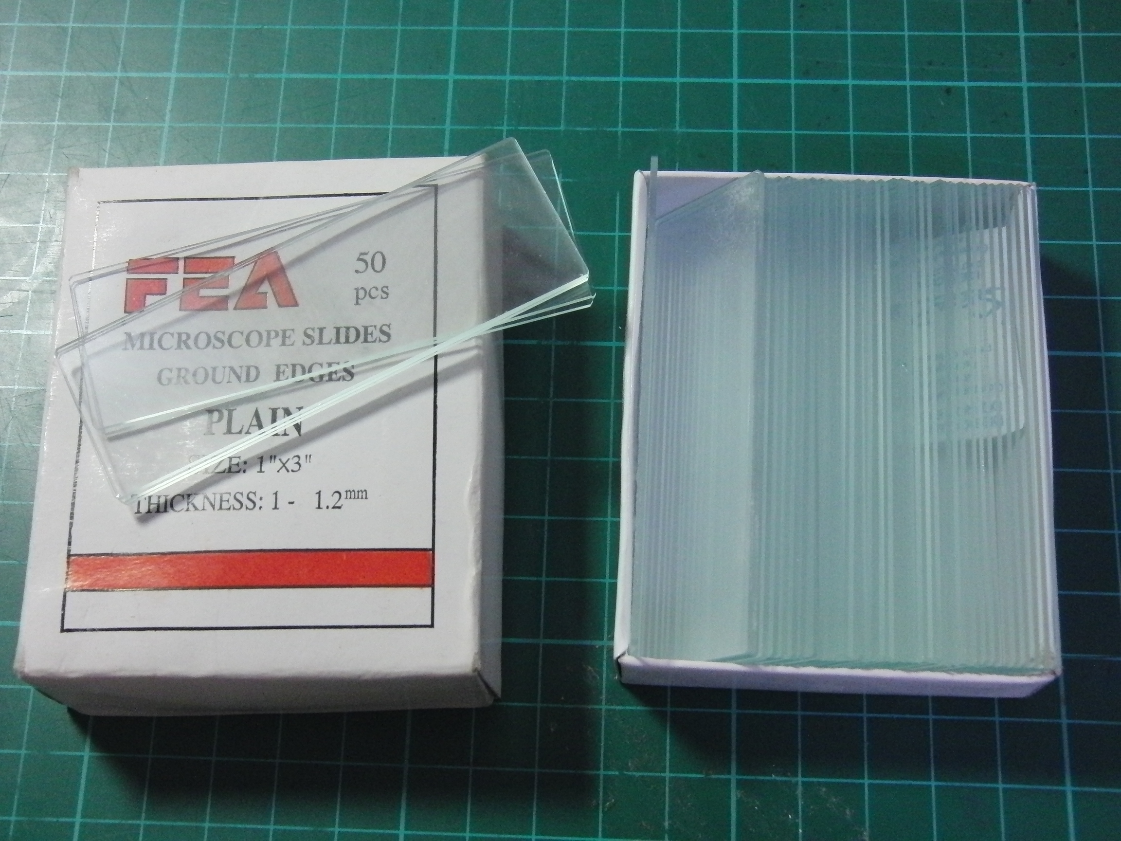 Glass plate